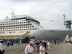 Photo of the MV Aurora at the Gibraltar cruise terminal on its ill fated cruise of the Mediterranean, when some of the passengers were infected with the Norwalk virus.